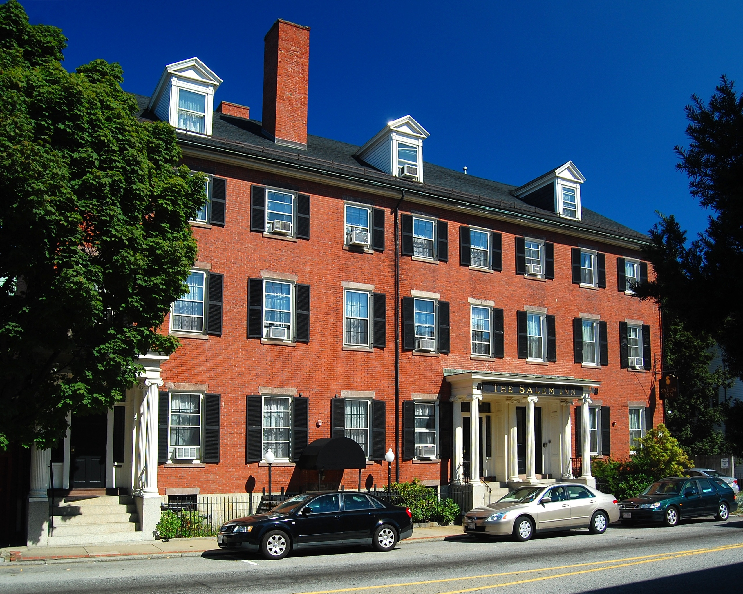 The Salem Inn in Salem, Massachusetts. The structure, known as the West-Cogswell House, is on the National Register of Historic Places.